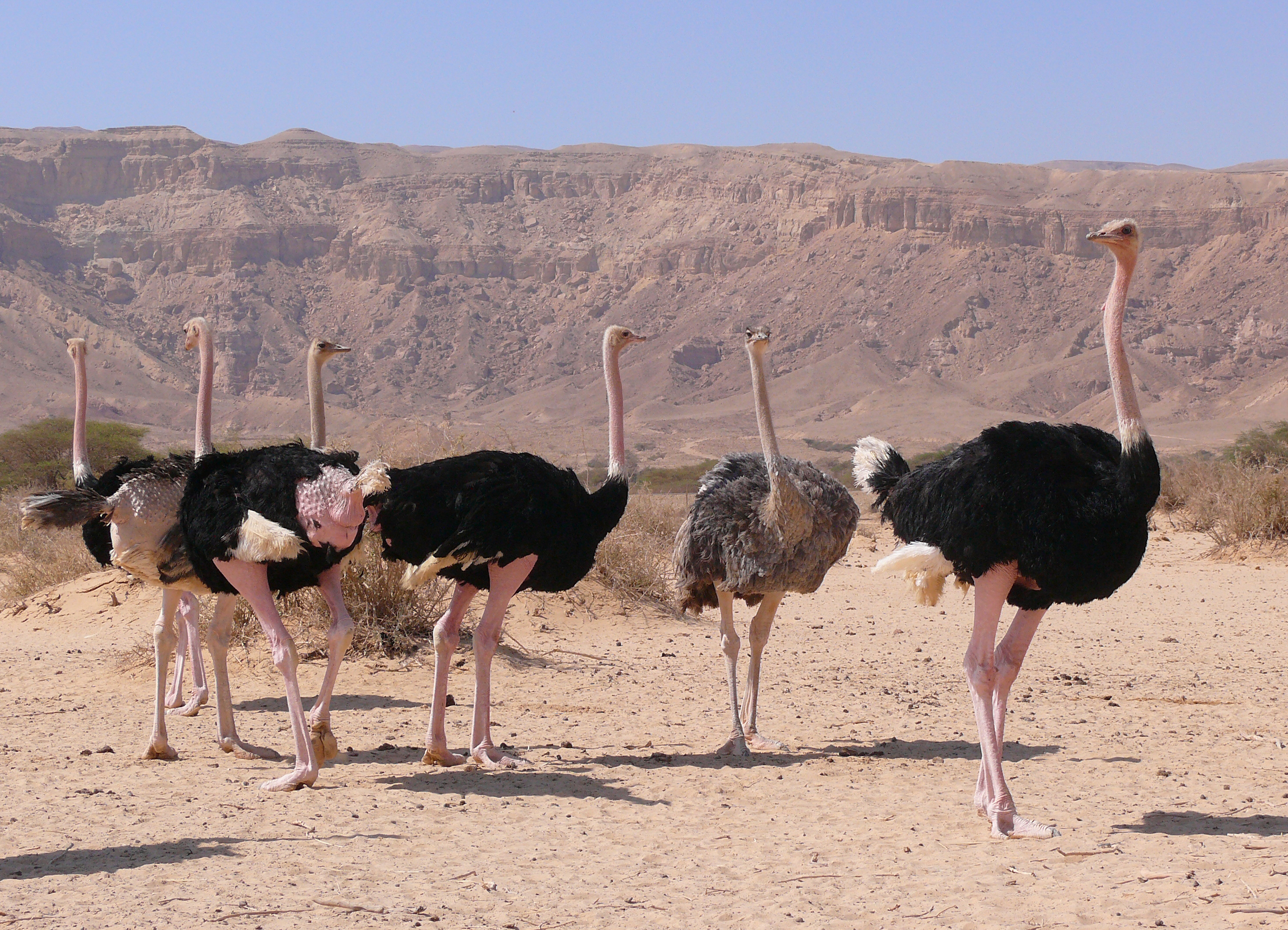 Struthio camelus, Chay Bar Yotvata, Israel